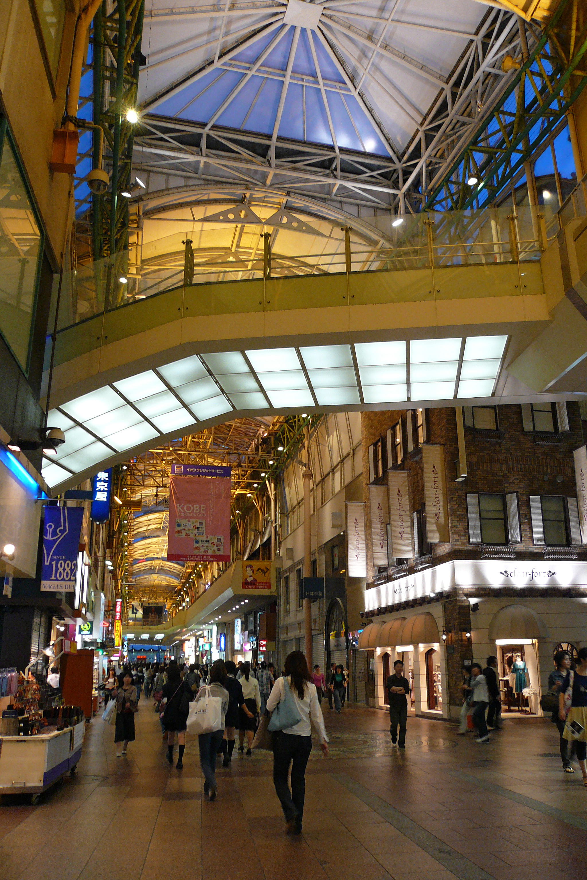 Sannomiya Center Street in Kobe, Hyogo prefecture, Japan